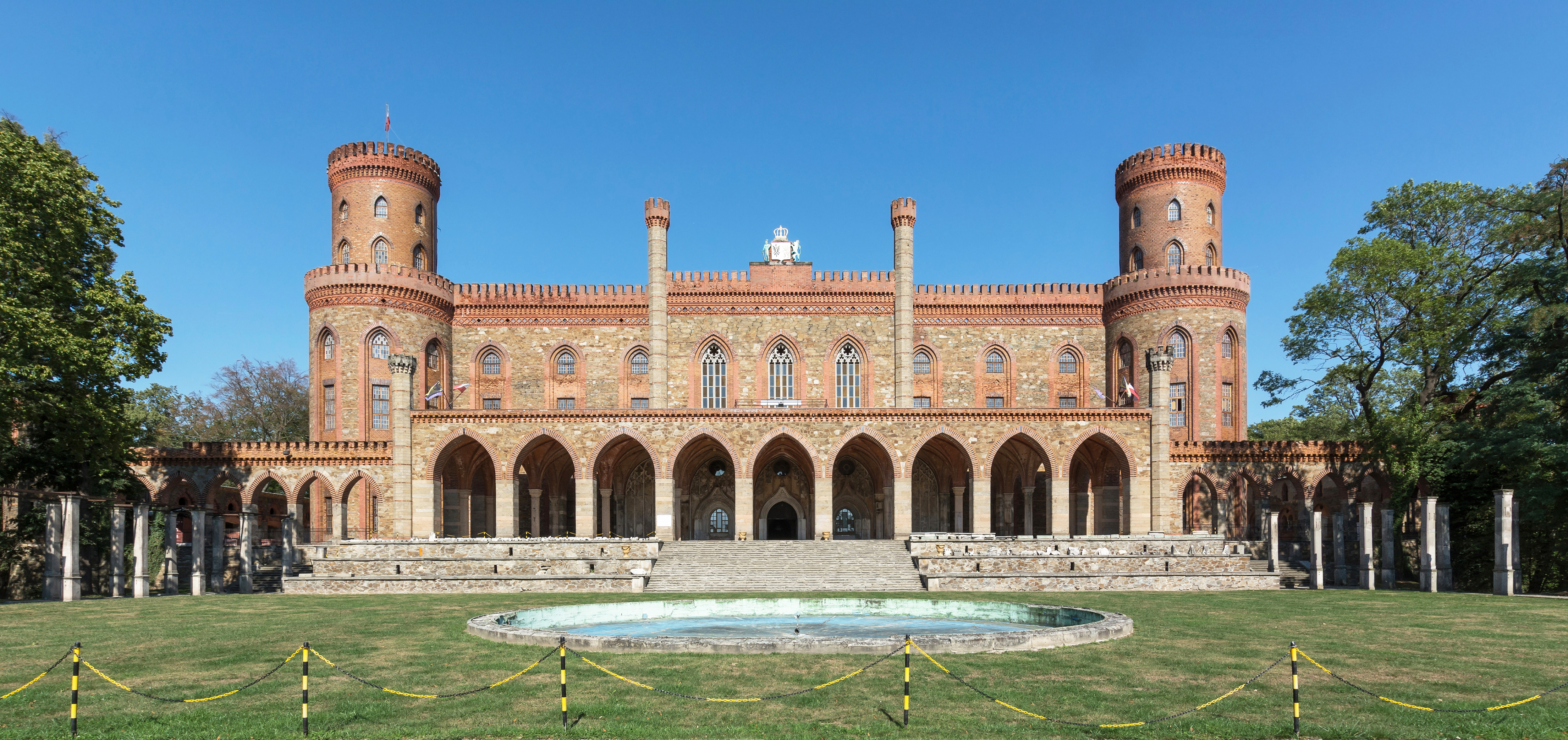 Kamieniec Ząbkowicki Castle Ta fotografia przedstawia zabytek wpisany do rejestru zabytków pod numerem ID 599960